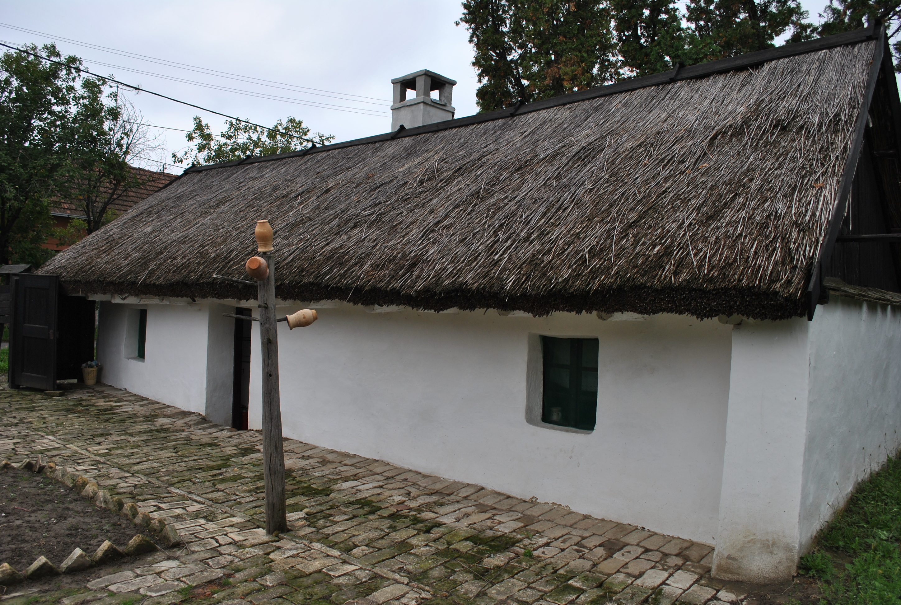 Bački Petrovac, Serbia - The oldest house in town from the end of the 18th or beginning of the 19th century